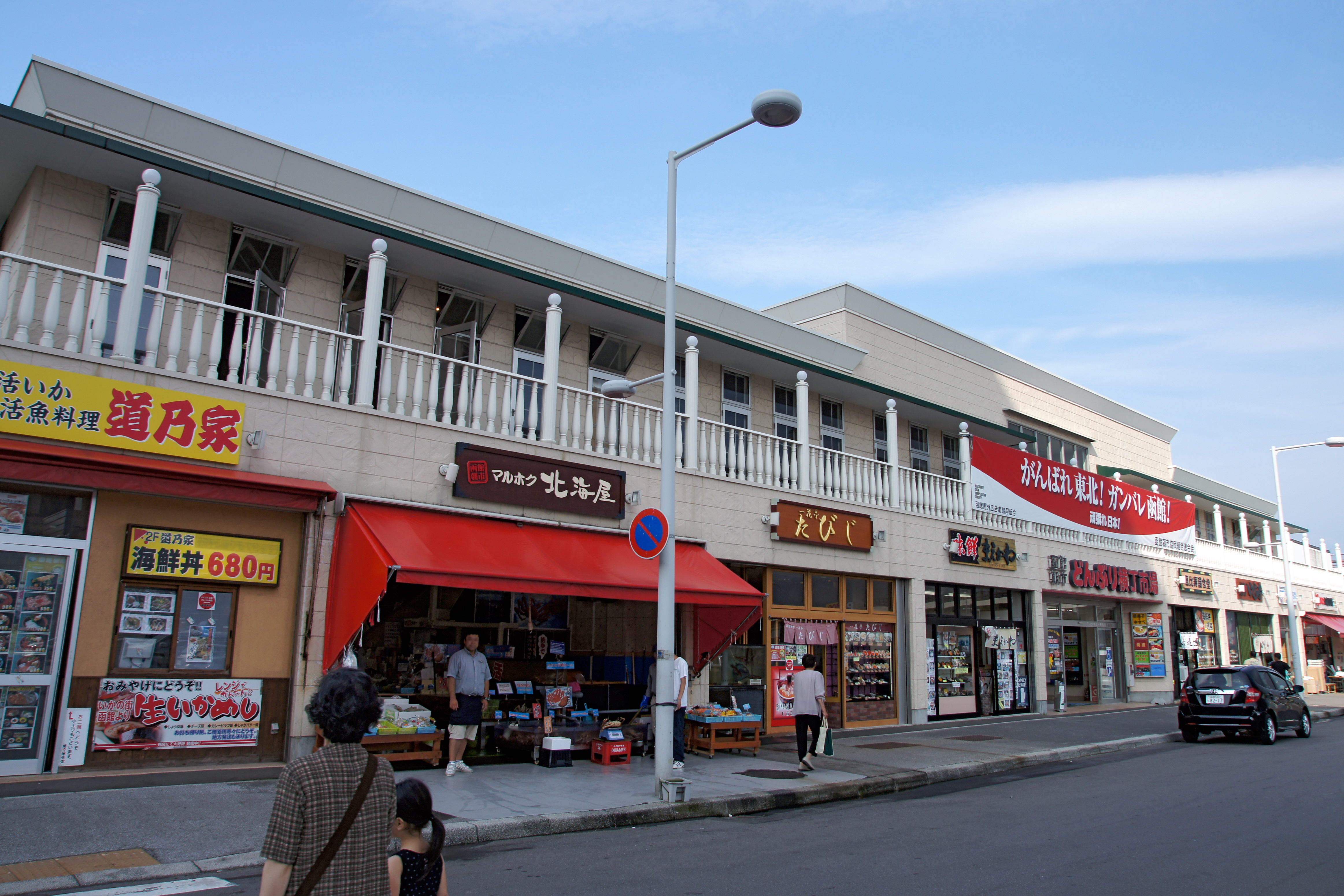 at Hakodate Asaichi in Hakodate, Hokkaido prefecture, Japan